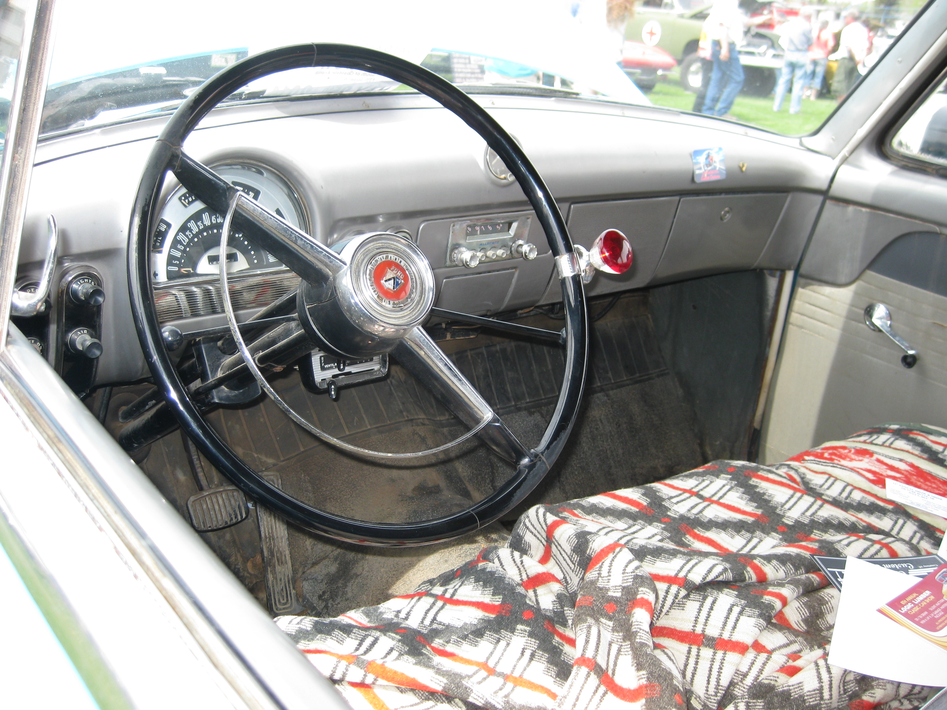 1953 Ford interior (Customline or Crestline)